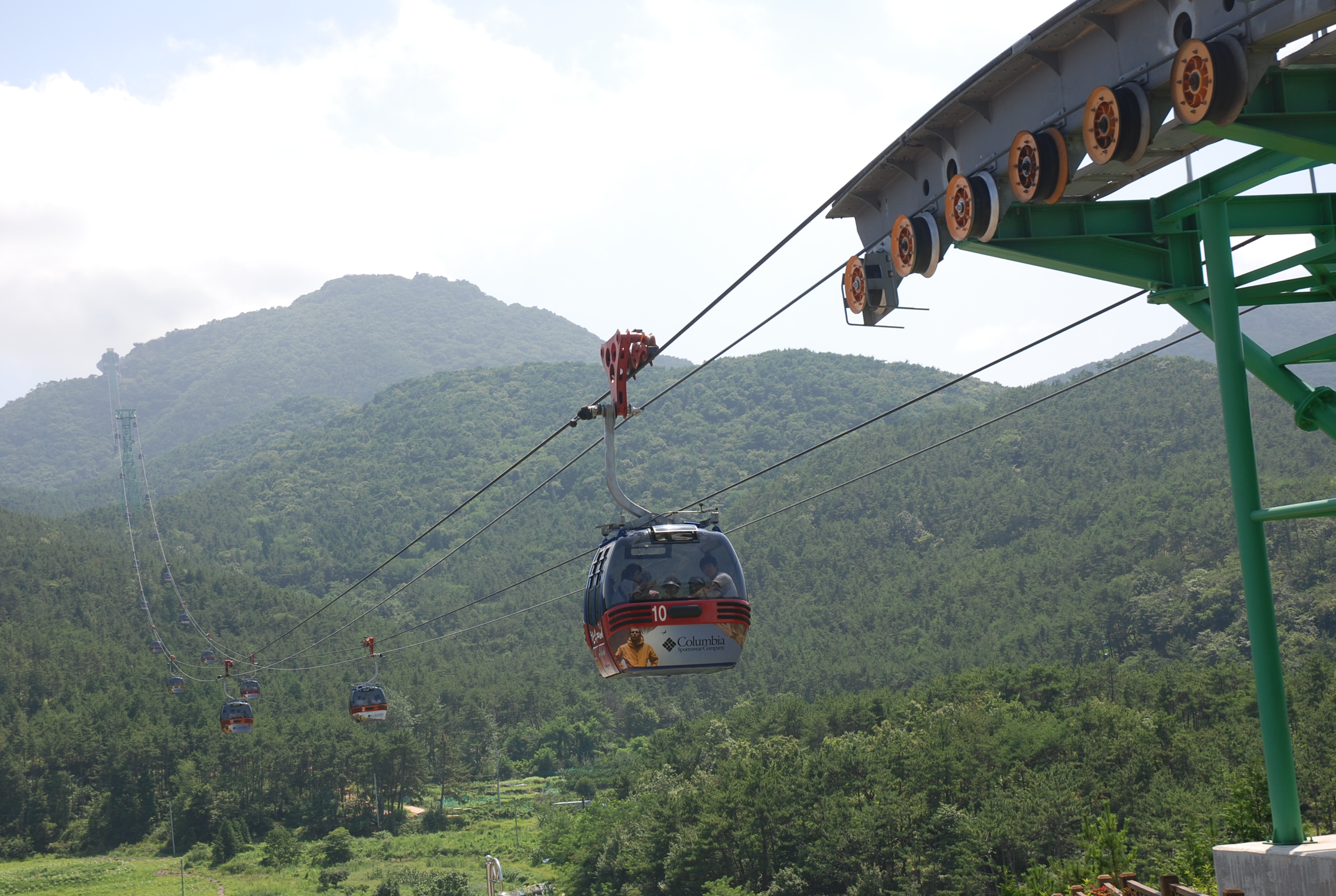 Tongyeong Cable Car Station